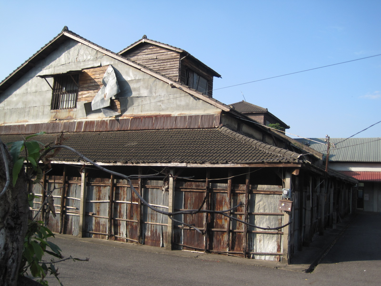 Qishan Rice Mill